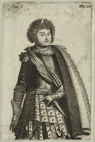 Diego Guzmán de Silva, ambassador to Britain of Philip II of Spain in 1564.